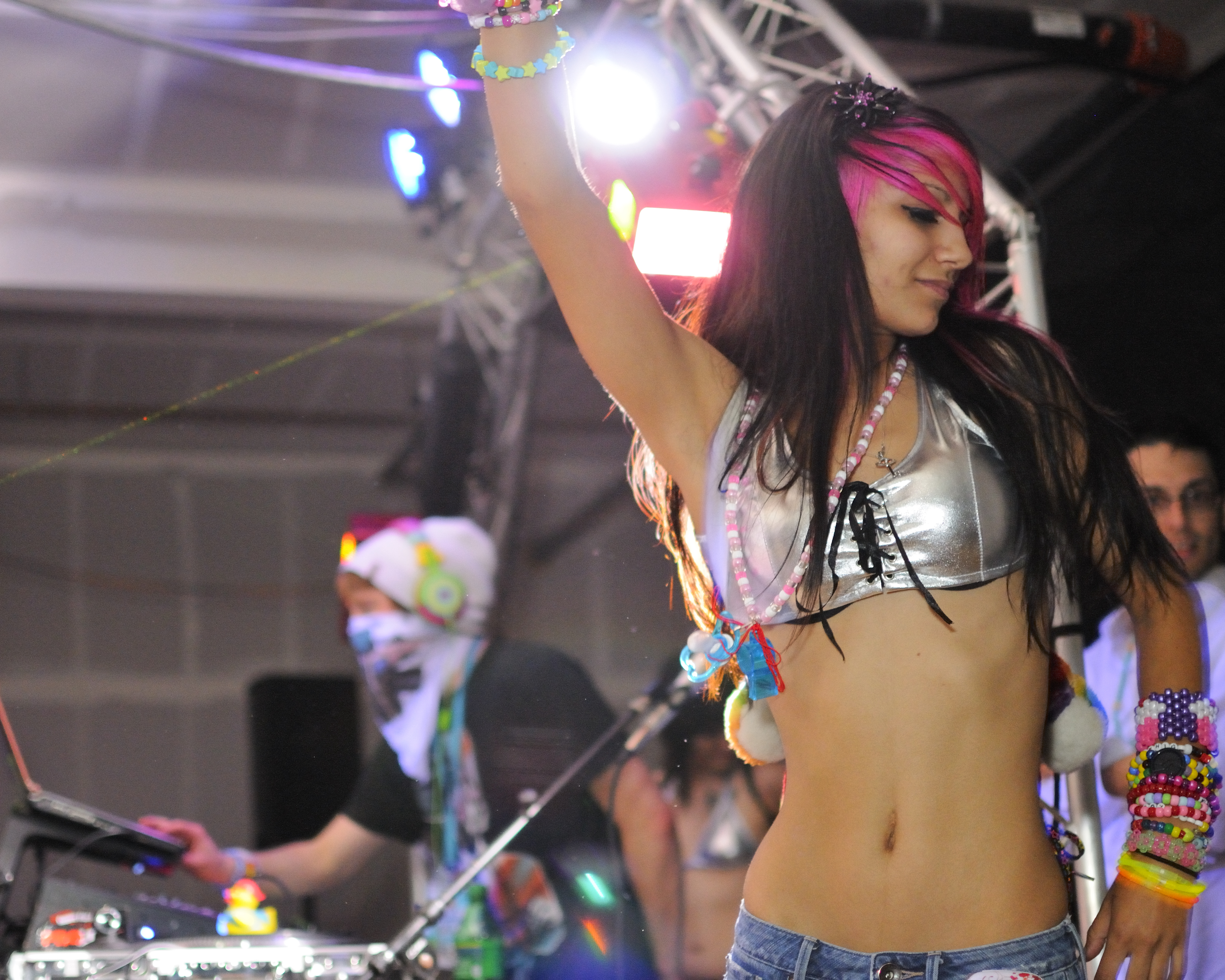 Go-Go dancing.